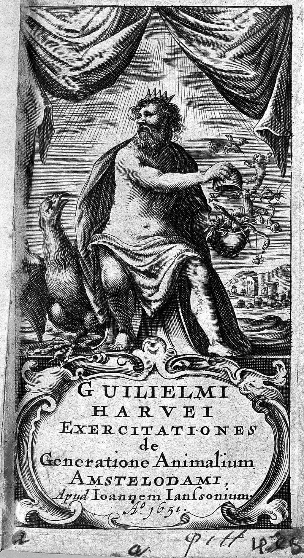 Depicts Zeus holding in his hands an egg from which all manner of living things emerge. Harvey insisted in his writings that the egg is the common original of all living beings. Rare Books Keywords: epb; harvey, william {1578-1657}; ORIGIN OF SPECIES; zeus